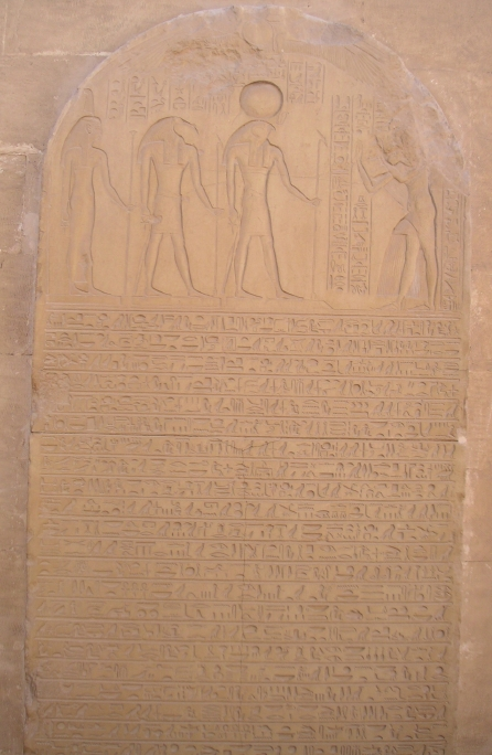 Horemheb stela - 18th dynasty of Egypt - Saqqara